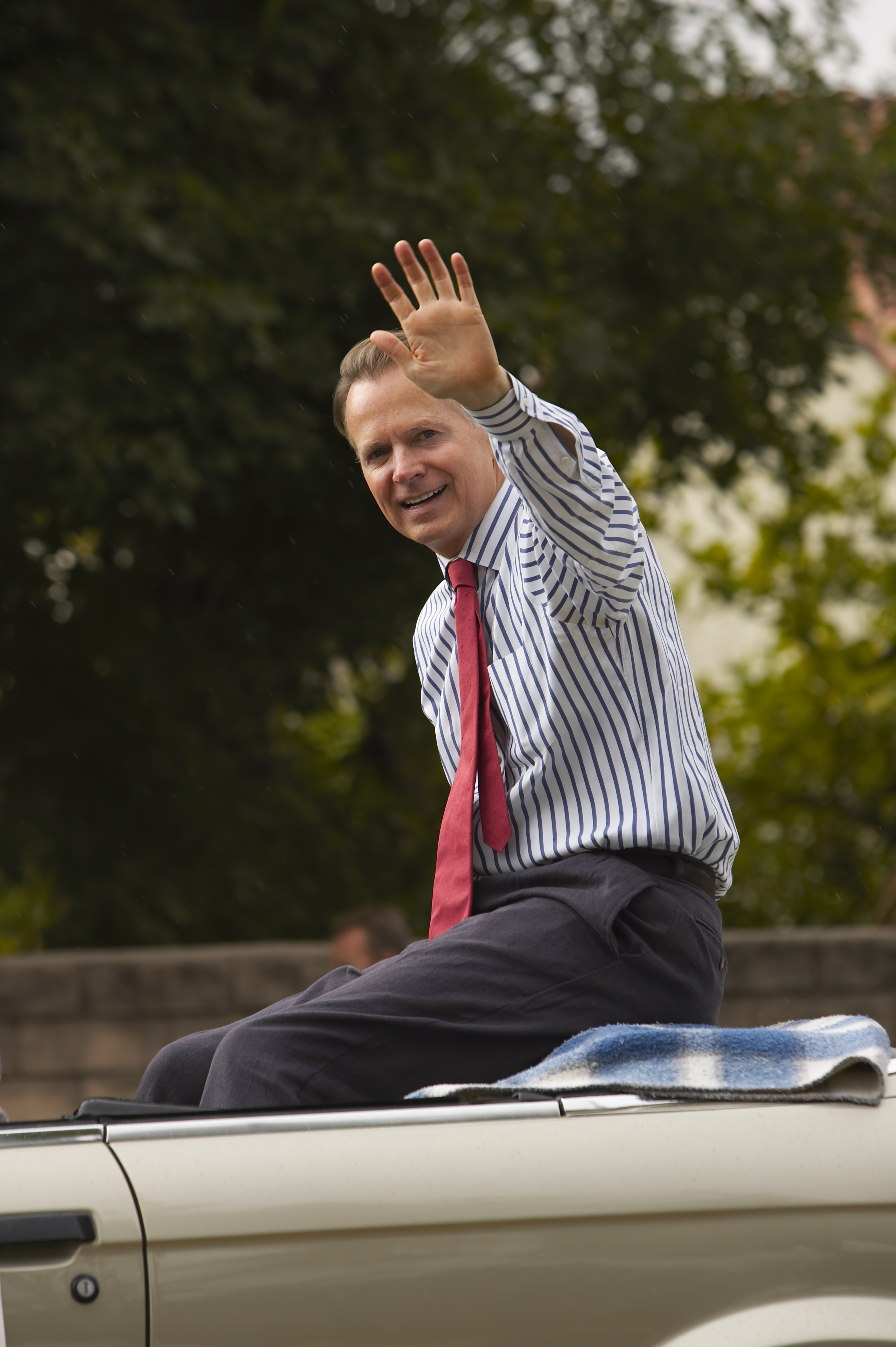 Congressman David Dreier at the Walnut Family Festival Parade in Walnut, California.